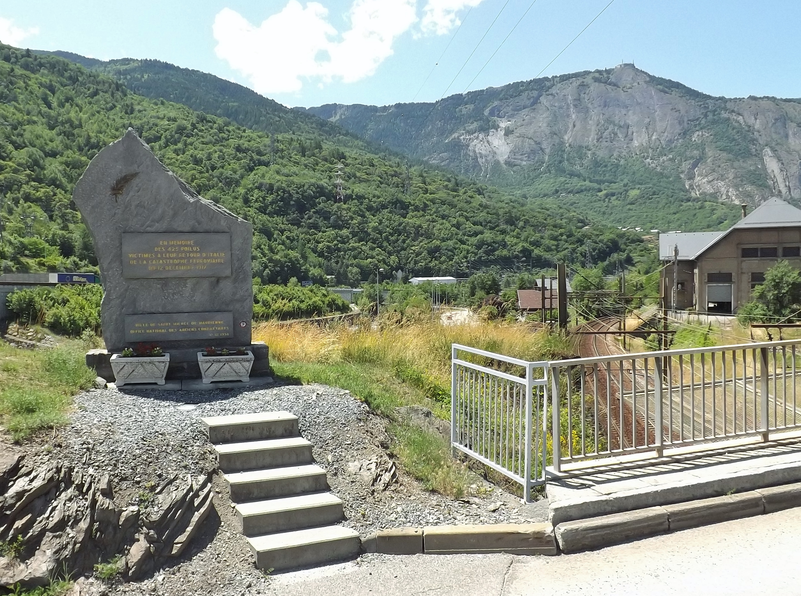 Sight, above the Maurienne railway line in Savoie (France), of the commemorative plate of the railway accident of December, 12th 1917, here, in Saint-Michel-de-Maurienne (425 French soliders died).